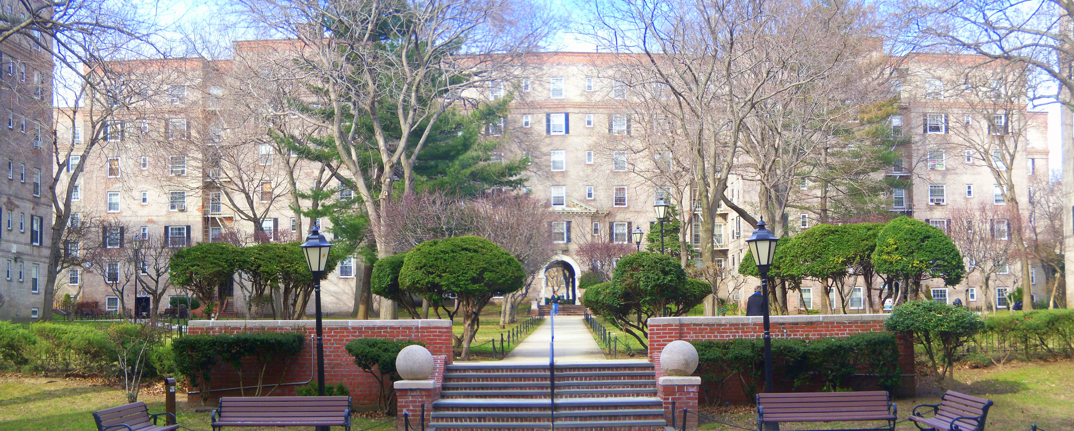 Interior of Boulevard Gardens, an apartment complex in Woodside, New York